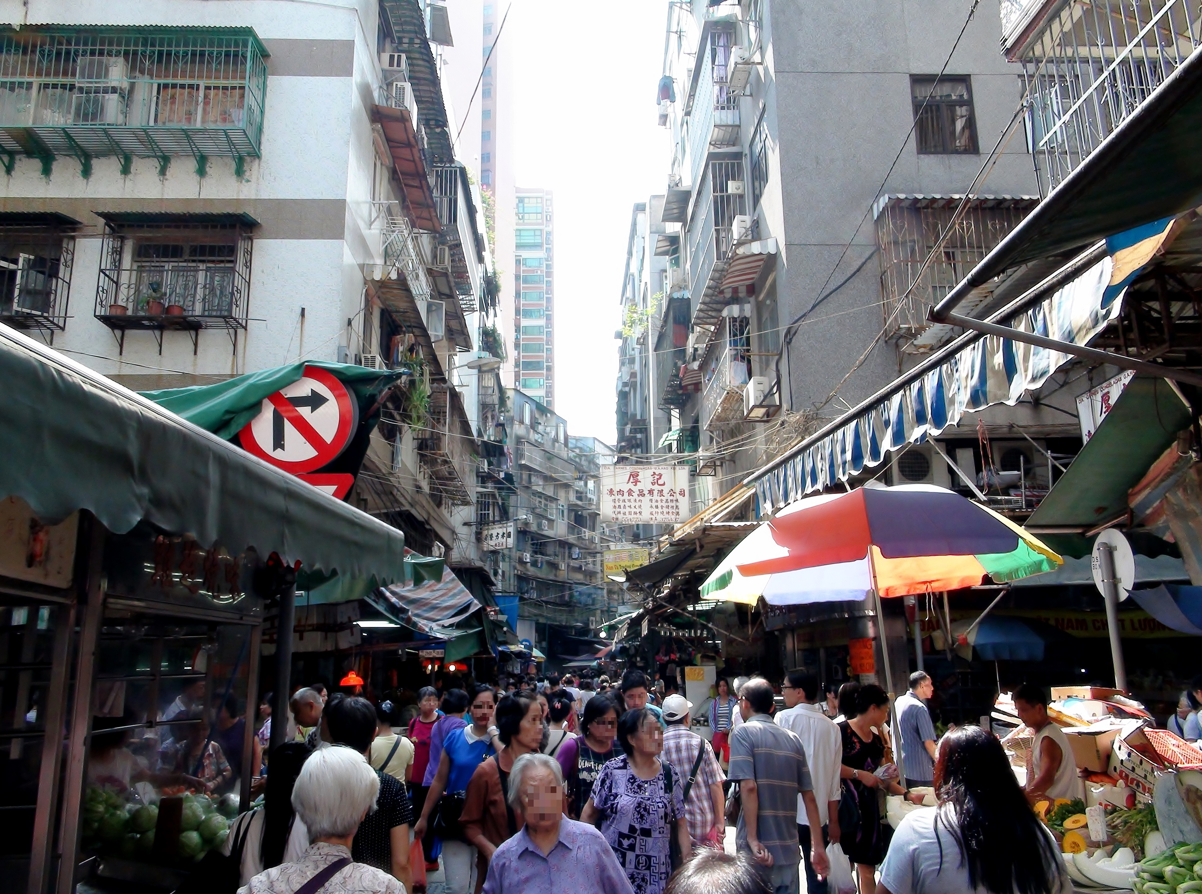 Macau street market. In the morning of summer.